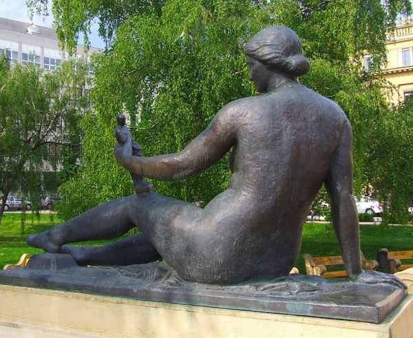 Sculpture of art in Debrecen